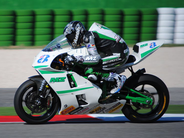 Anthony West 2010 Misano